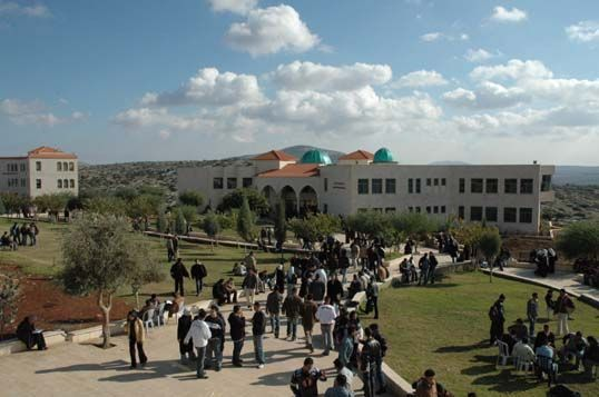 Arab American University - Palestine